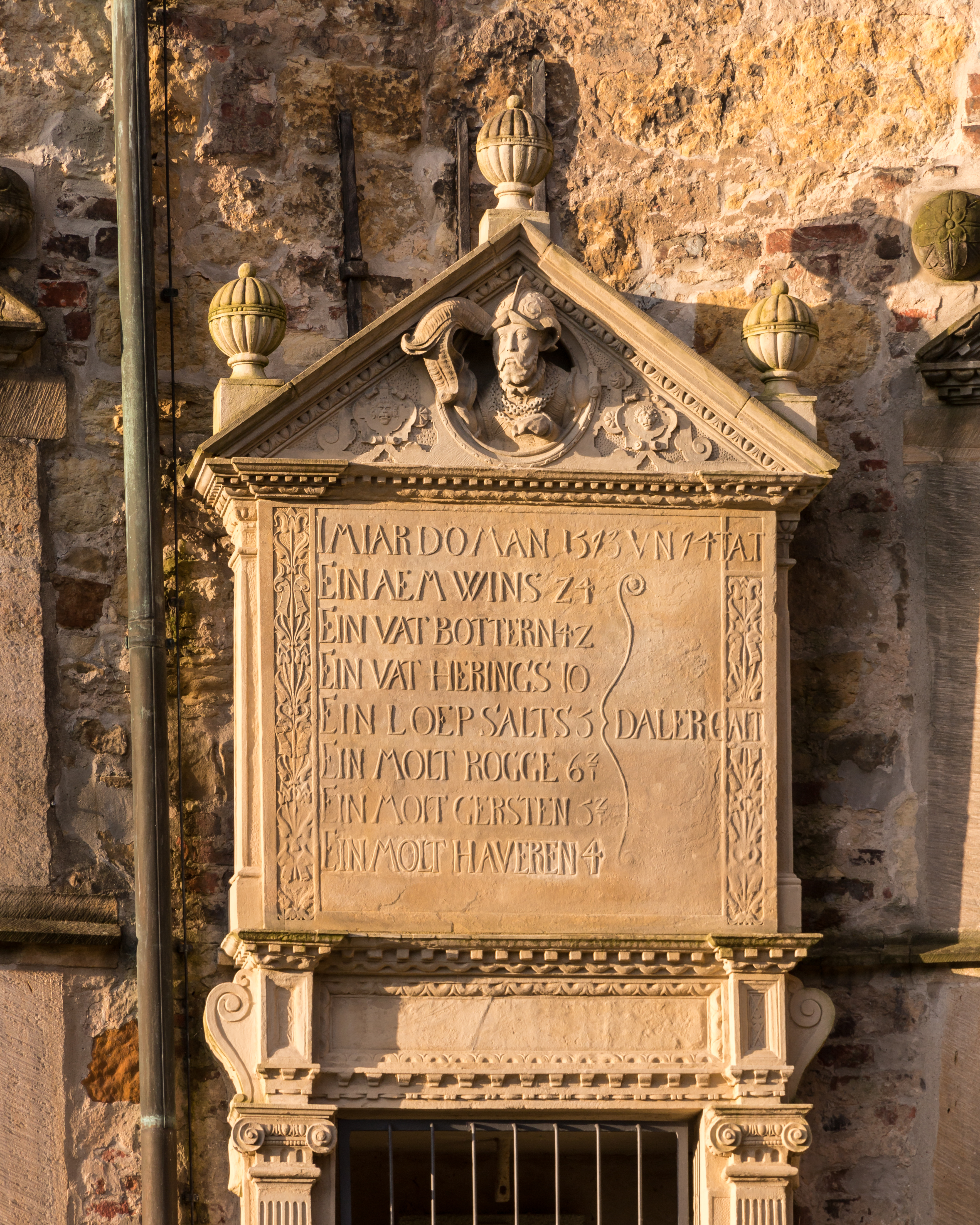 Inscription with food prices of the years 1573/74, Lüdinghausen Castle in Lüdinghausen, North Rhine-Westphalia, Germany This image shows a heritage building in Germany, located in the North Rhine-Westphalian city Lüdinghausen (no. A/021).